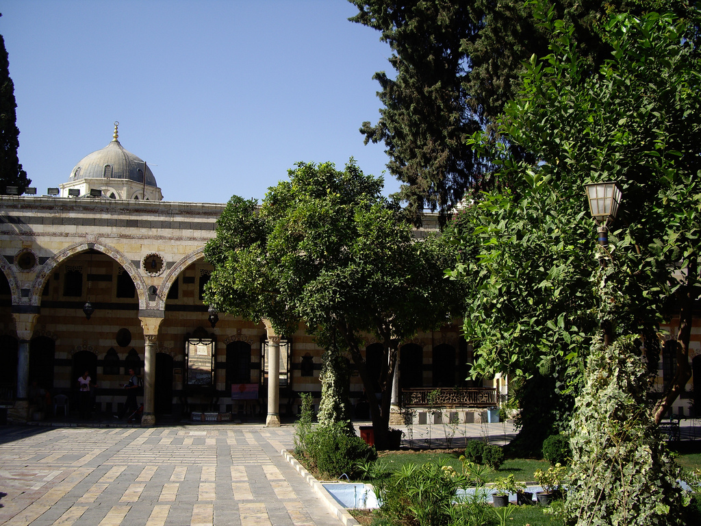 Courtyard and garden of the Azm Palace — in Damascus (Syria).